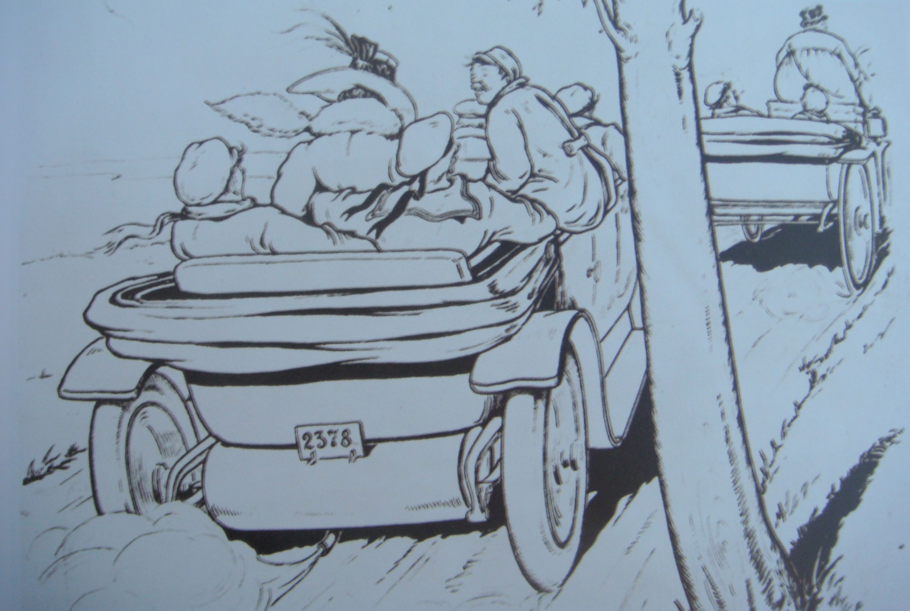 Caricature from Russian mass-media of end 1917 - early 1918 named "Evening jaunt of new revolutionary establishment to a pleasant evening"